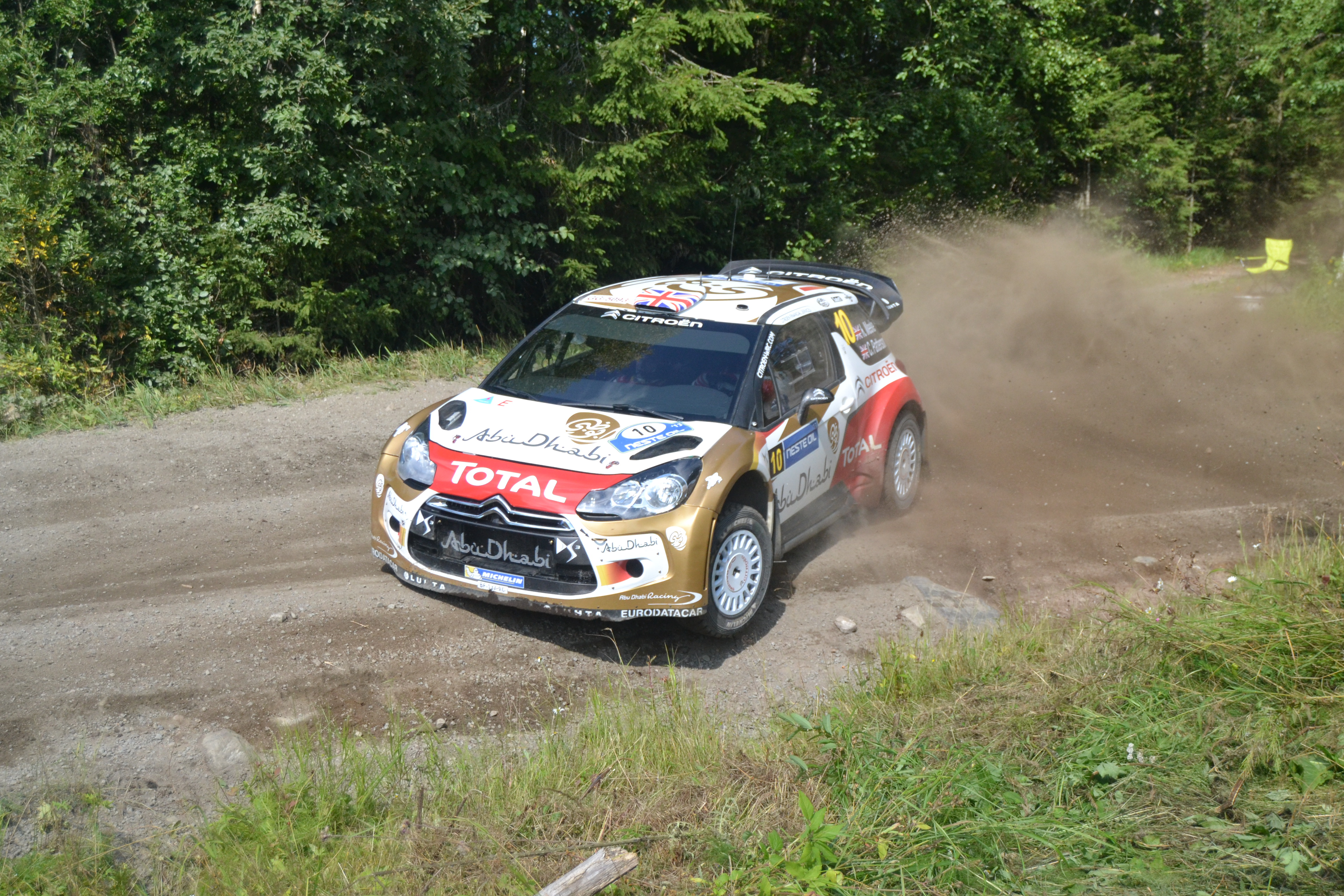 Kris Meeke at 2nd Surkee stage at 2013 Rally Finland